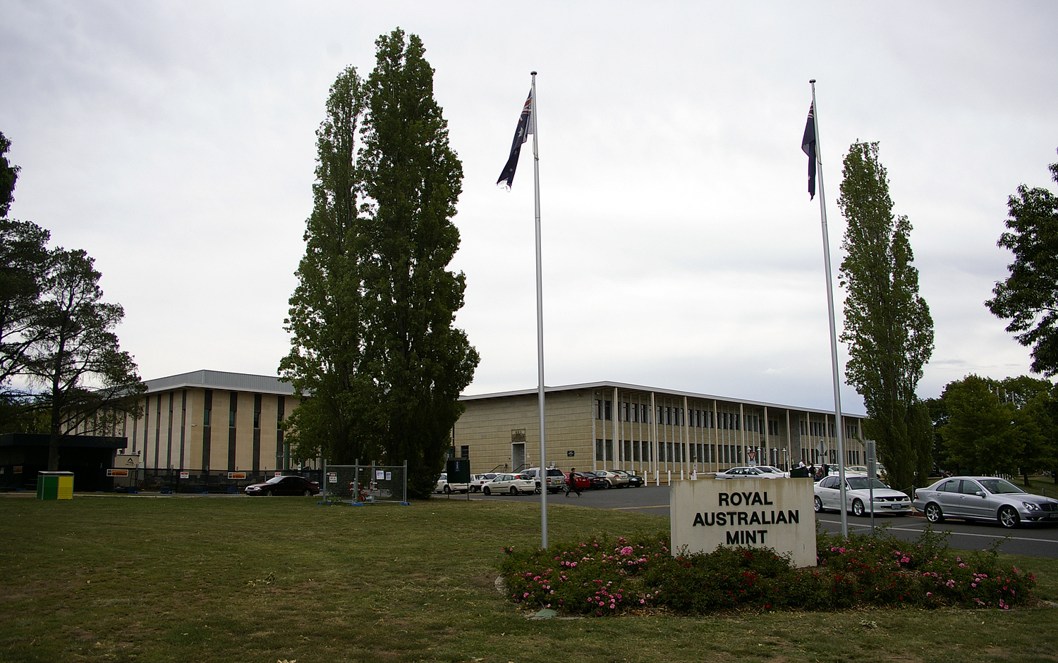 Royal Australian Mint in Deakin, Australian Capital Territory